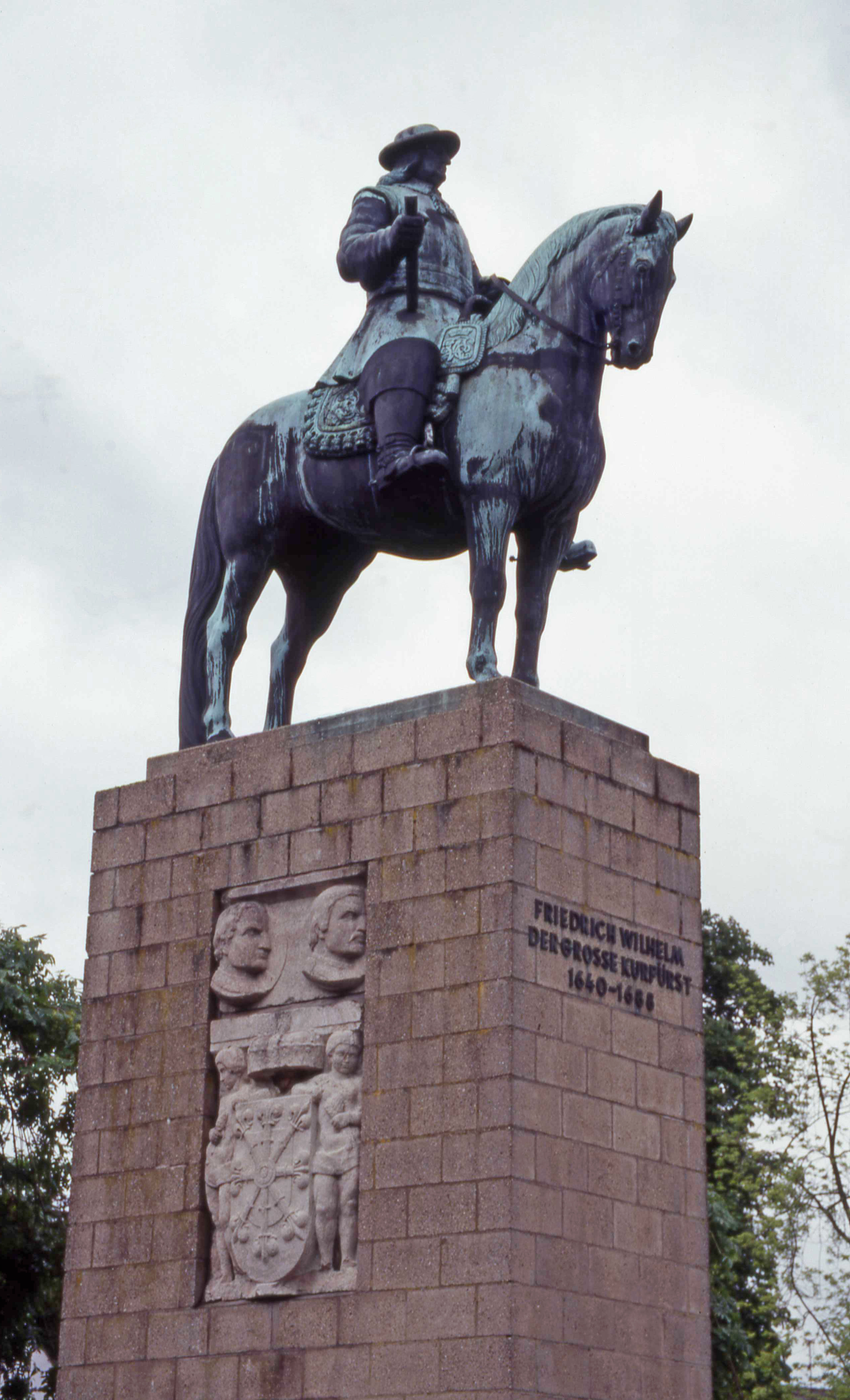 Equestrian statue of the Great Elector Frederick William I by Peter Breuer in Kleve. Erected in celebration of the 300th anniversary of Kleve's inclusion within the Electorate of Brandenburg, and unveiled on August 9, 1909, by Kaiser William II. Present site: at the royal stables before the Schwanenburg. Original site: at the Kleiner Markt.